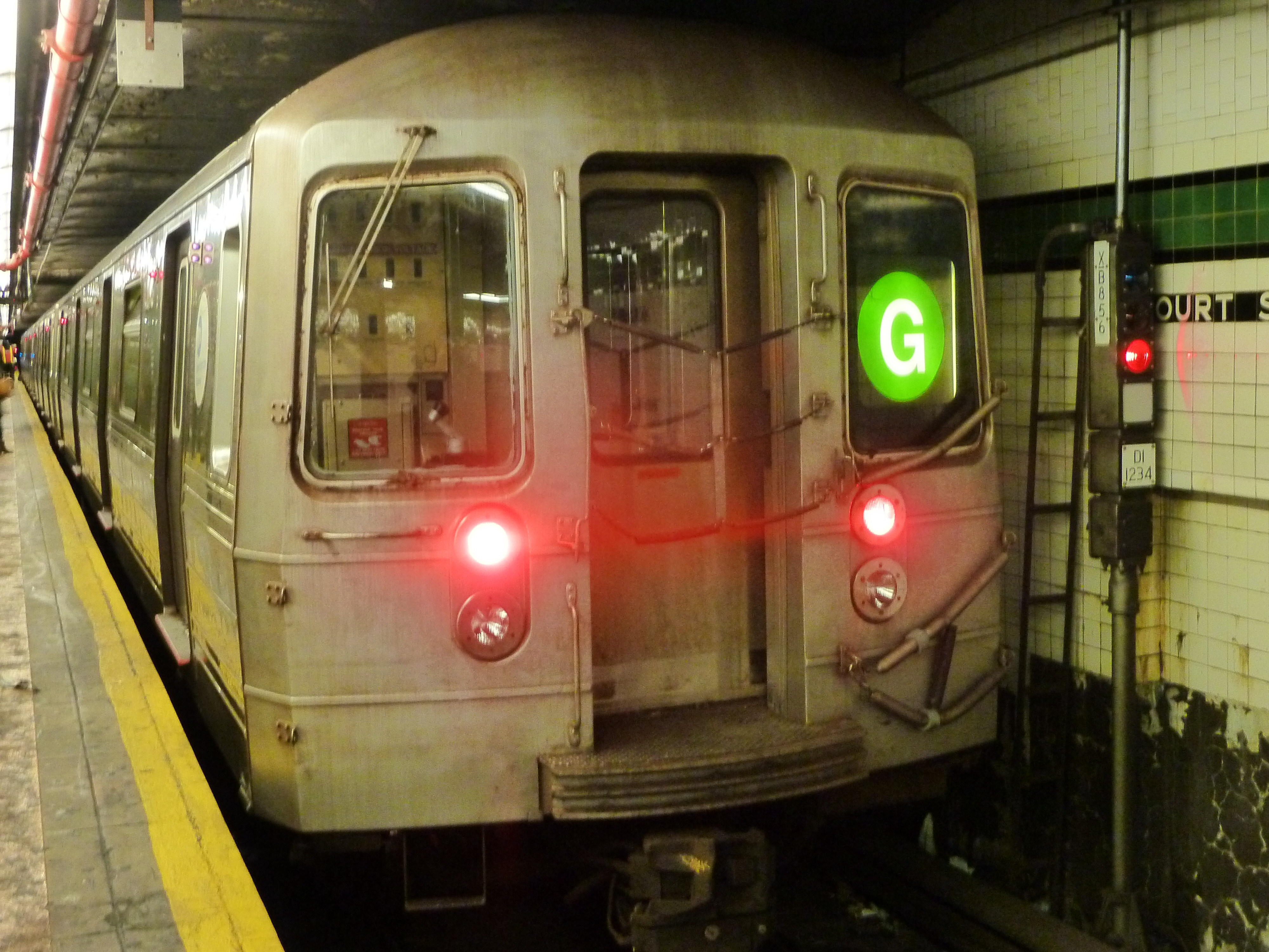 Back side of an R68 train.